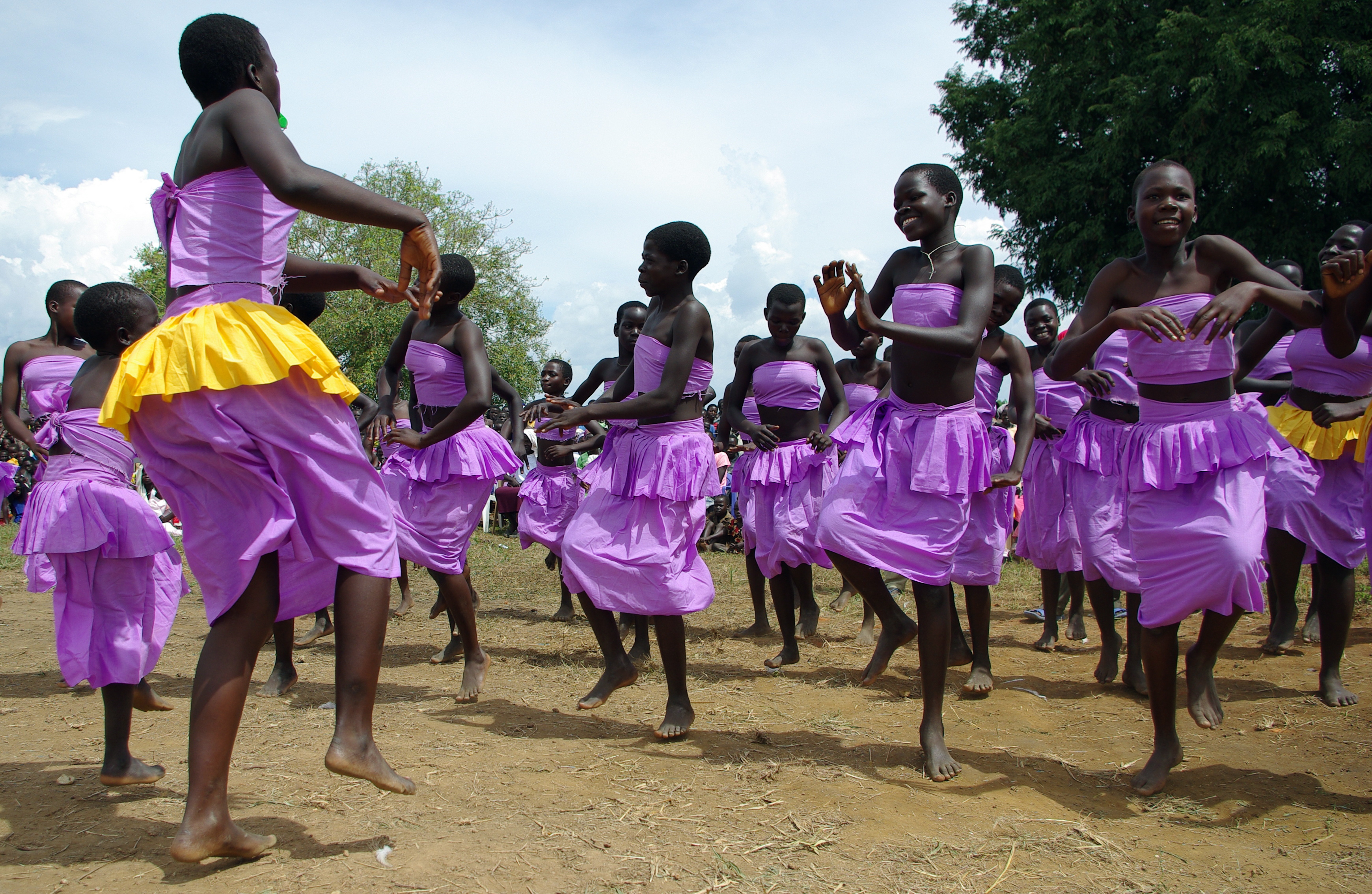 Children of Uganda — cultural celebrations resumed with the end of the LRA conflict in Northern Region of Uganda. Africa Bureau of the USAID–United States Agency for International Development.